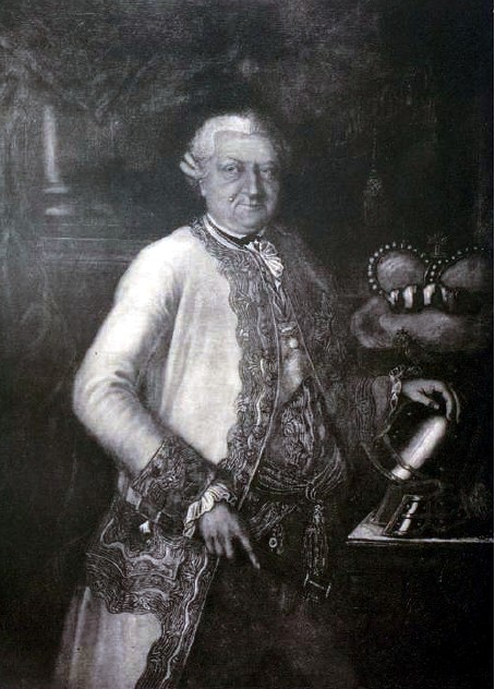 Cristoph of Baden-Durlach (1717-1789)